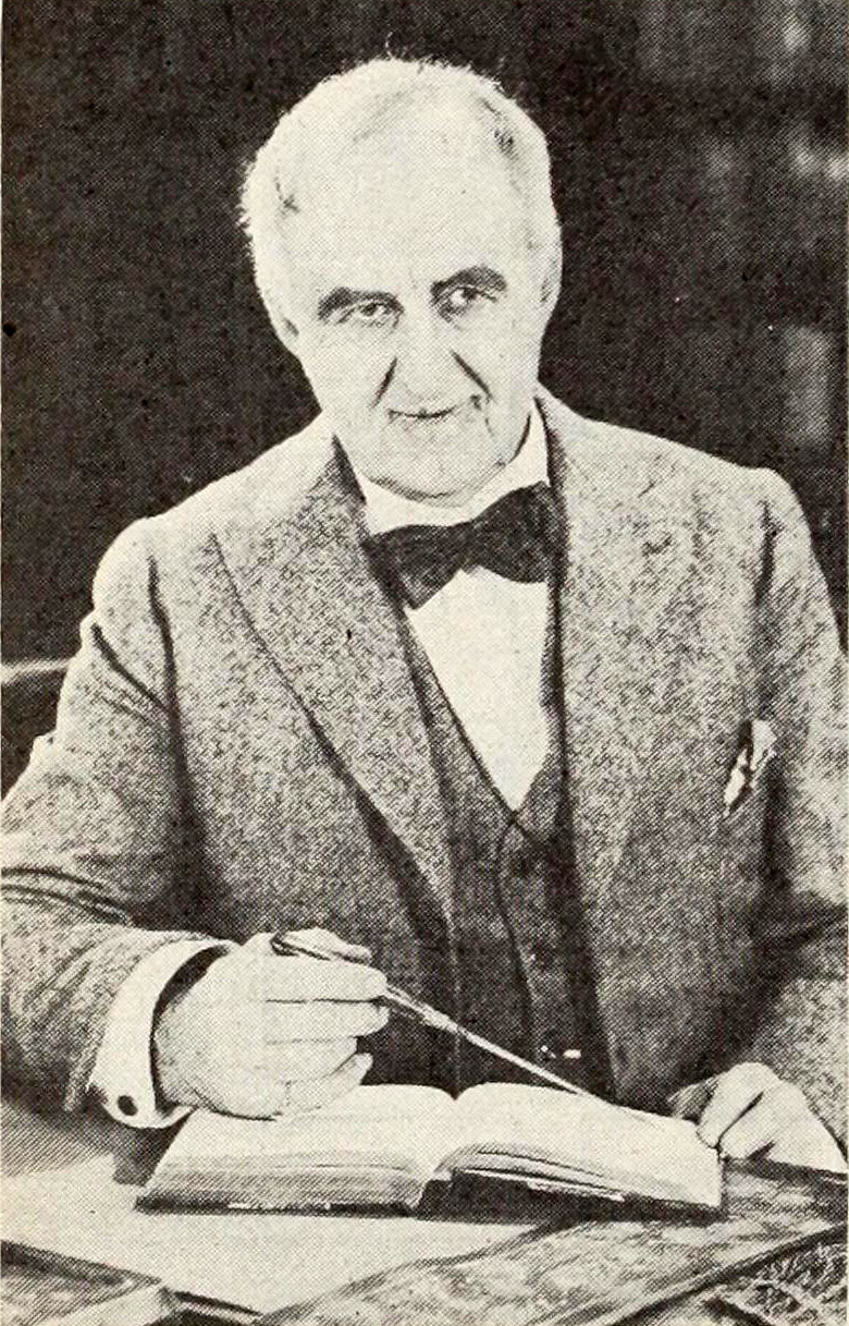 Promotional photo - Frank Currier 1921